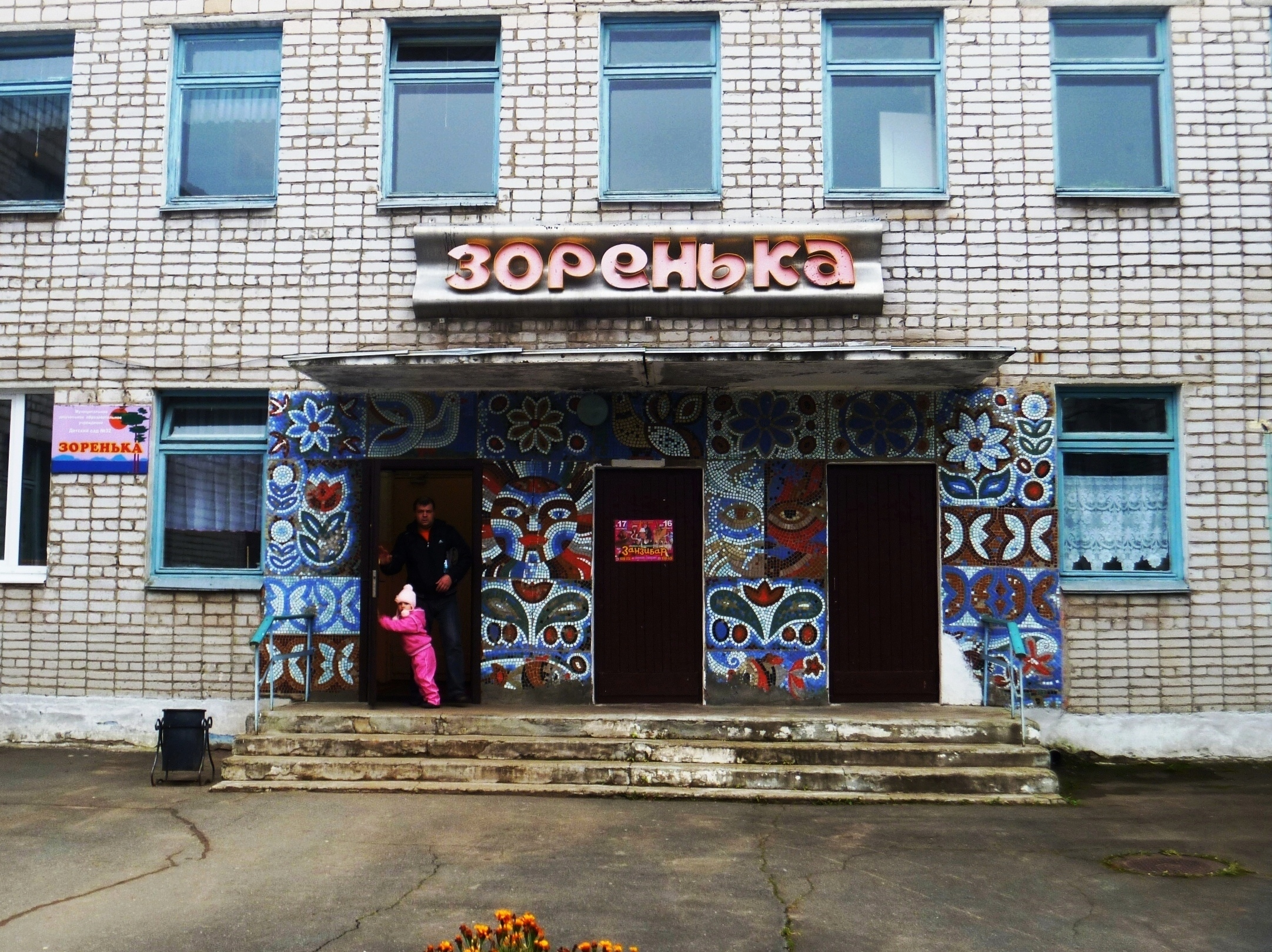 Perm region